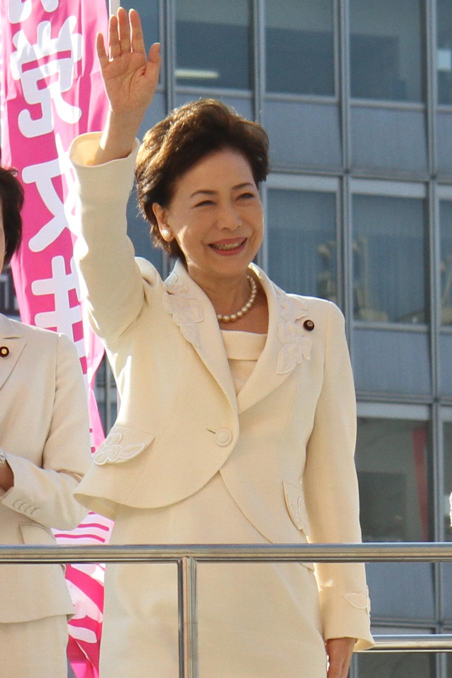 Akira Matsu in front of campaigning Shinjuku Station